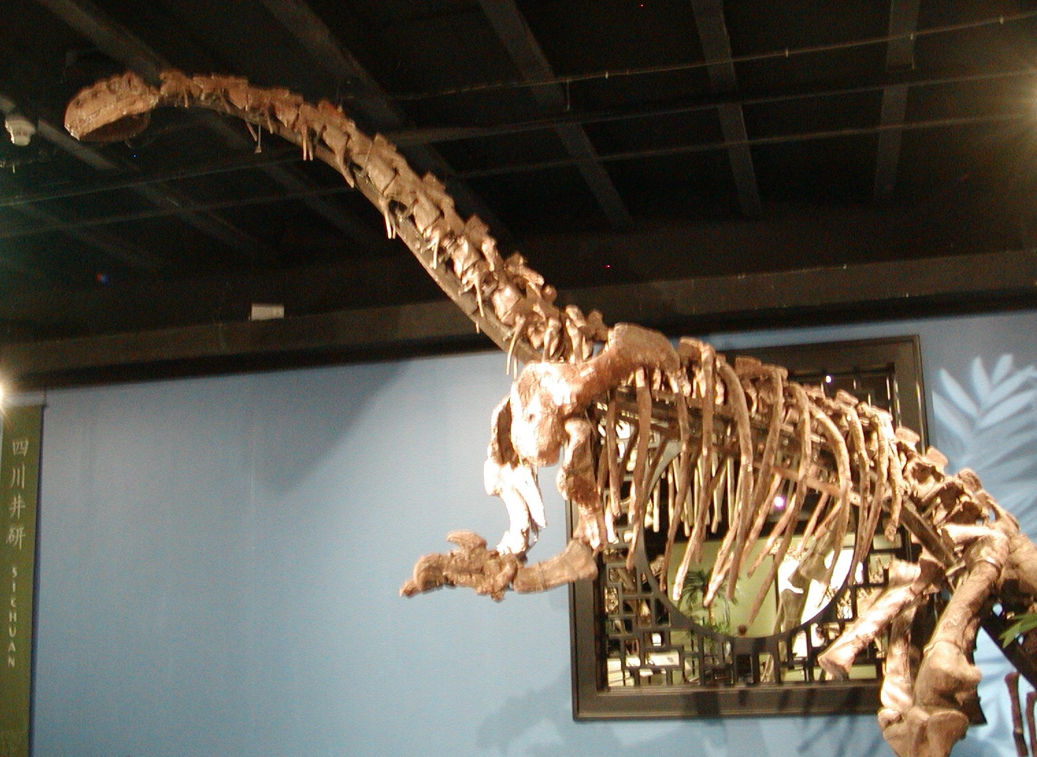 Photo of skeleton from Beijing Museum of Natural History, on display at Miami Science Museum